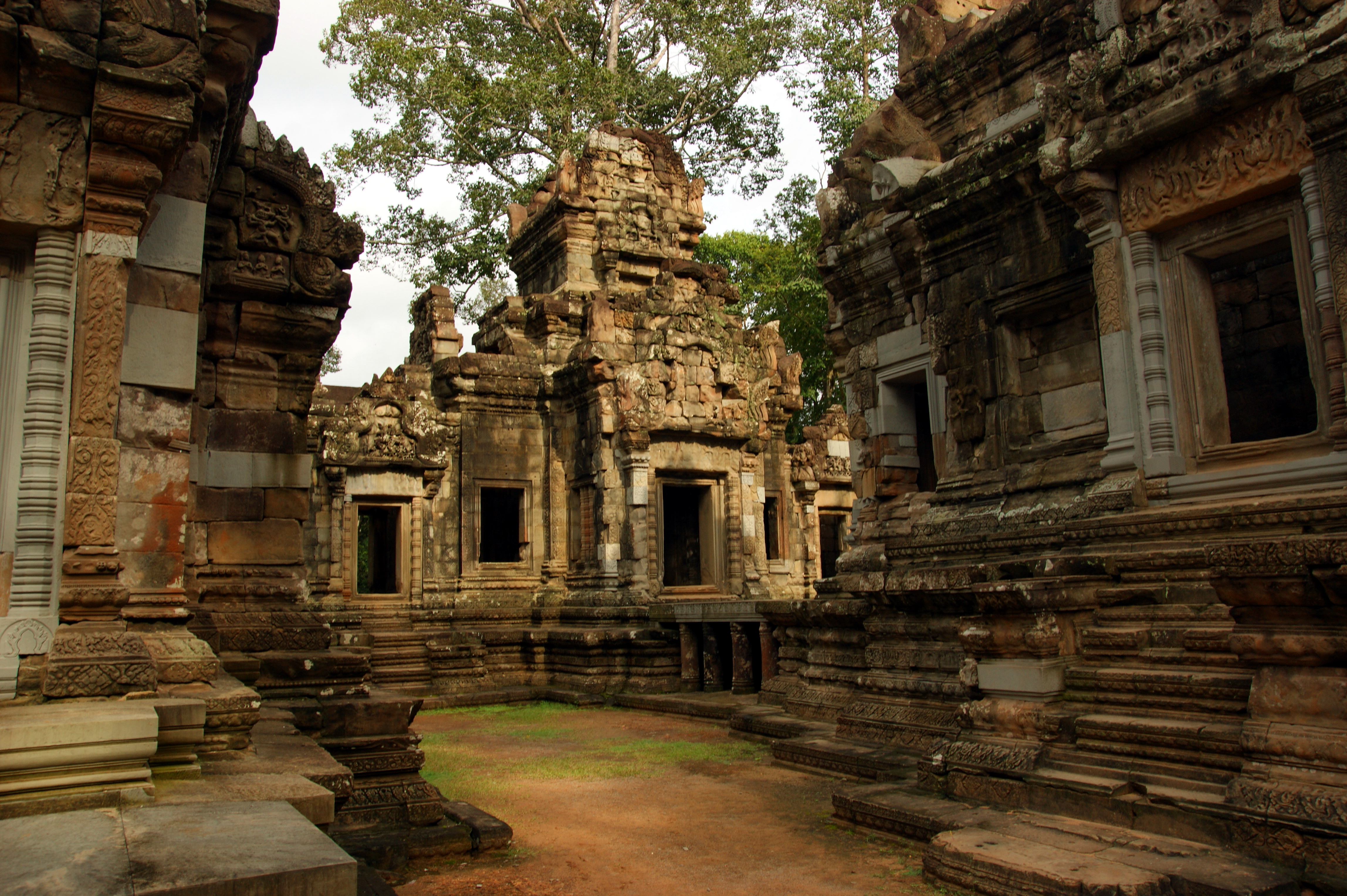 Angkor Chau Say Tevoda is a Hindu temple which was built in the mid-12th century at the famous Angkor Wat site of Siem Reap in Cambodia.